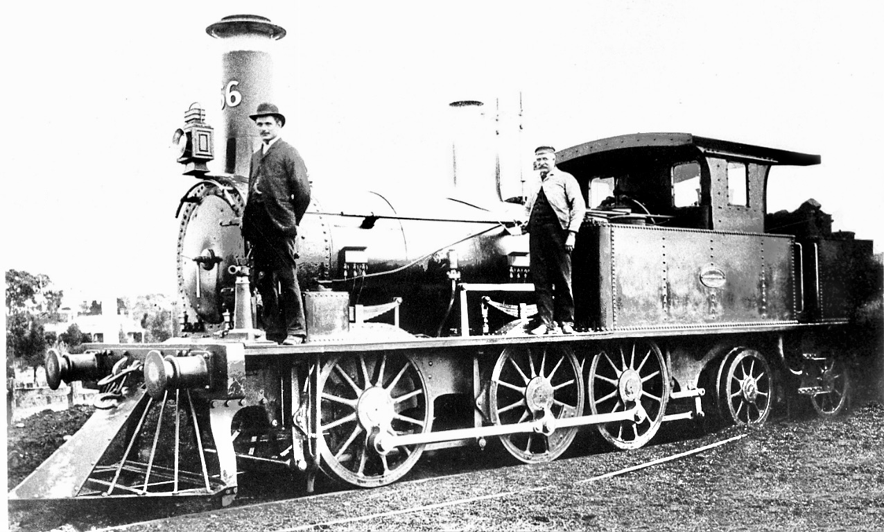 K66, a K Class engine used on the Morgan line, with Fred Leal, driver, and another man standing on the train, for photograph.